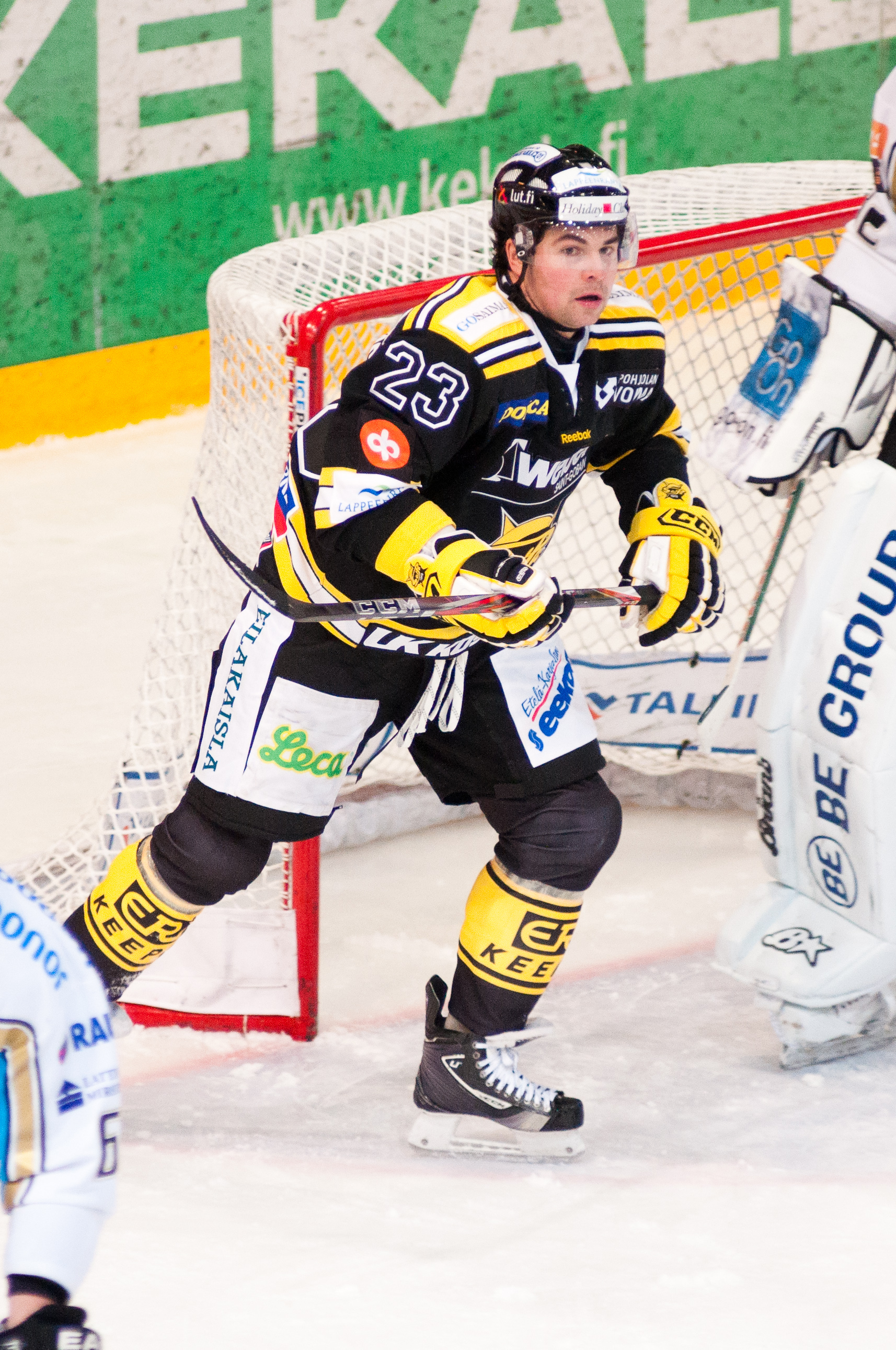 Canadian ice hockey forward Riley Armstrong playing in his debut game for SaiPa Lappeenranta in the Finnish SM-liiga against Lahti Pelicans.